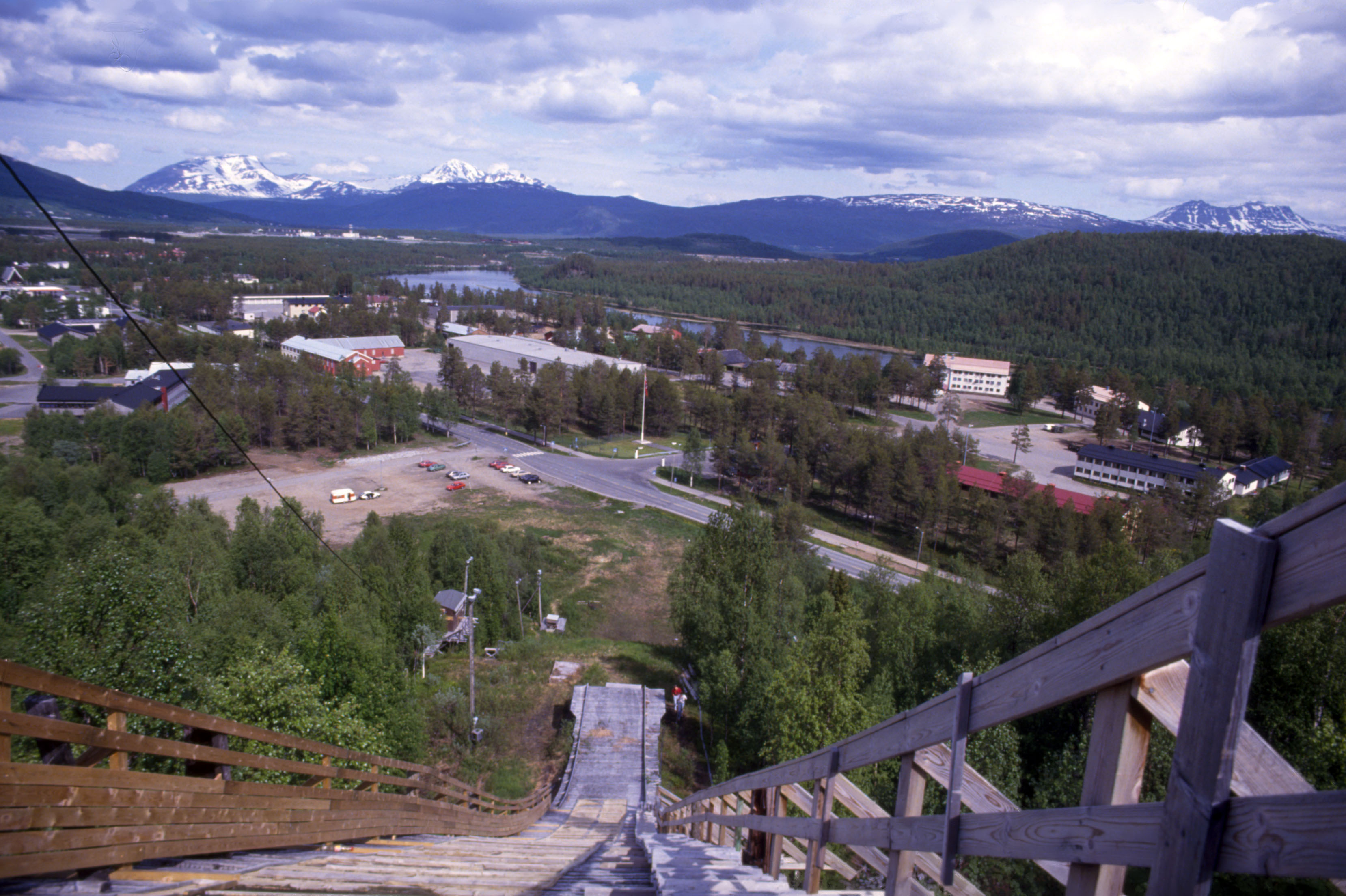 The village Heggelia and the river Barduelva in Målselv, Troms, Norway